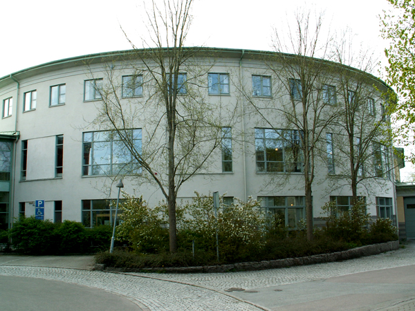 The central library of Kungsbacka, Fyren